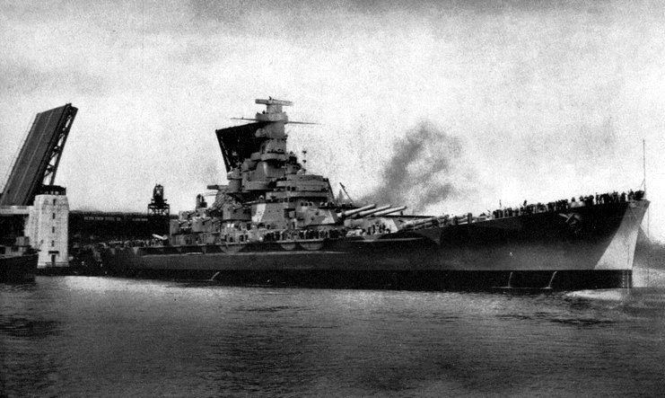 The U.S. Navy battleship USS Massachusetts (BB-59) underway at the Bethlehem Steel Corporation Fore River Shipyard, Massachusetts (USA), in early 1942. Note that her radars are still missing. Note her Modified Measure 12 Camouflage.